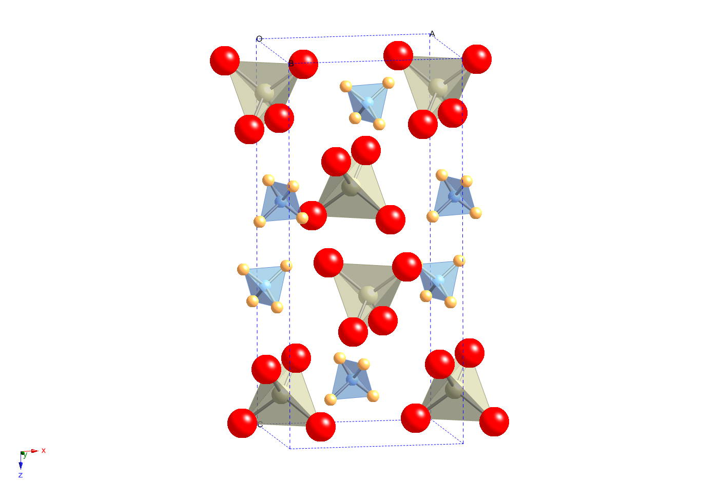 Crystal structure plot of ammonium perrhenate, NH4ReO4 - a scheelite structure with an ammonium cation